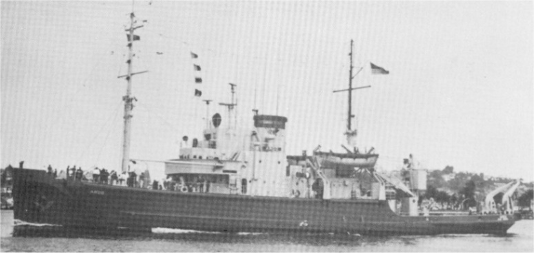 R/V Argo underway, date and place unknown. US Navy photo from DANFS.